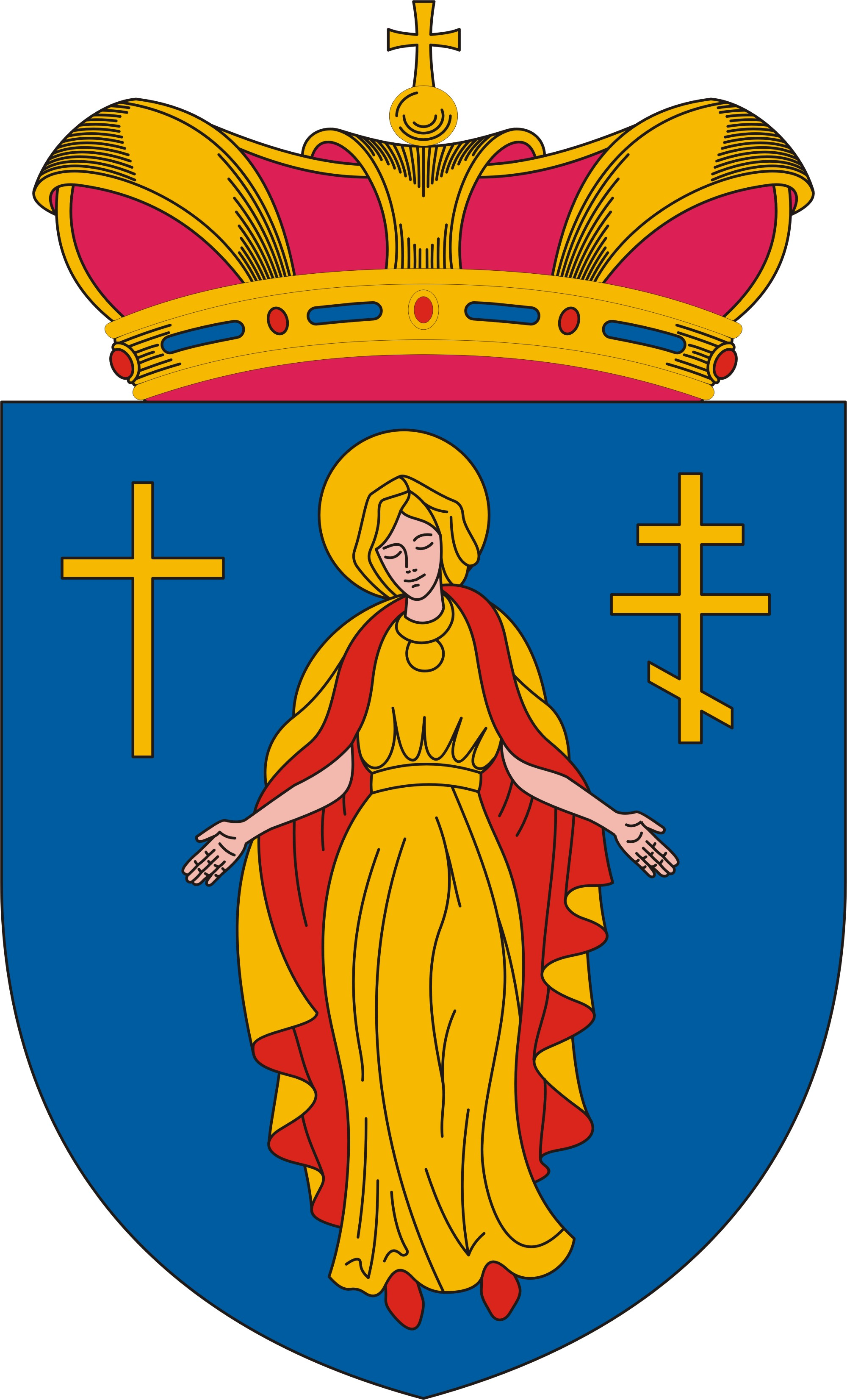 Coat of arms of Hercegszántó, Hungary